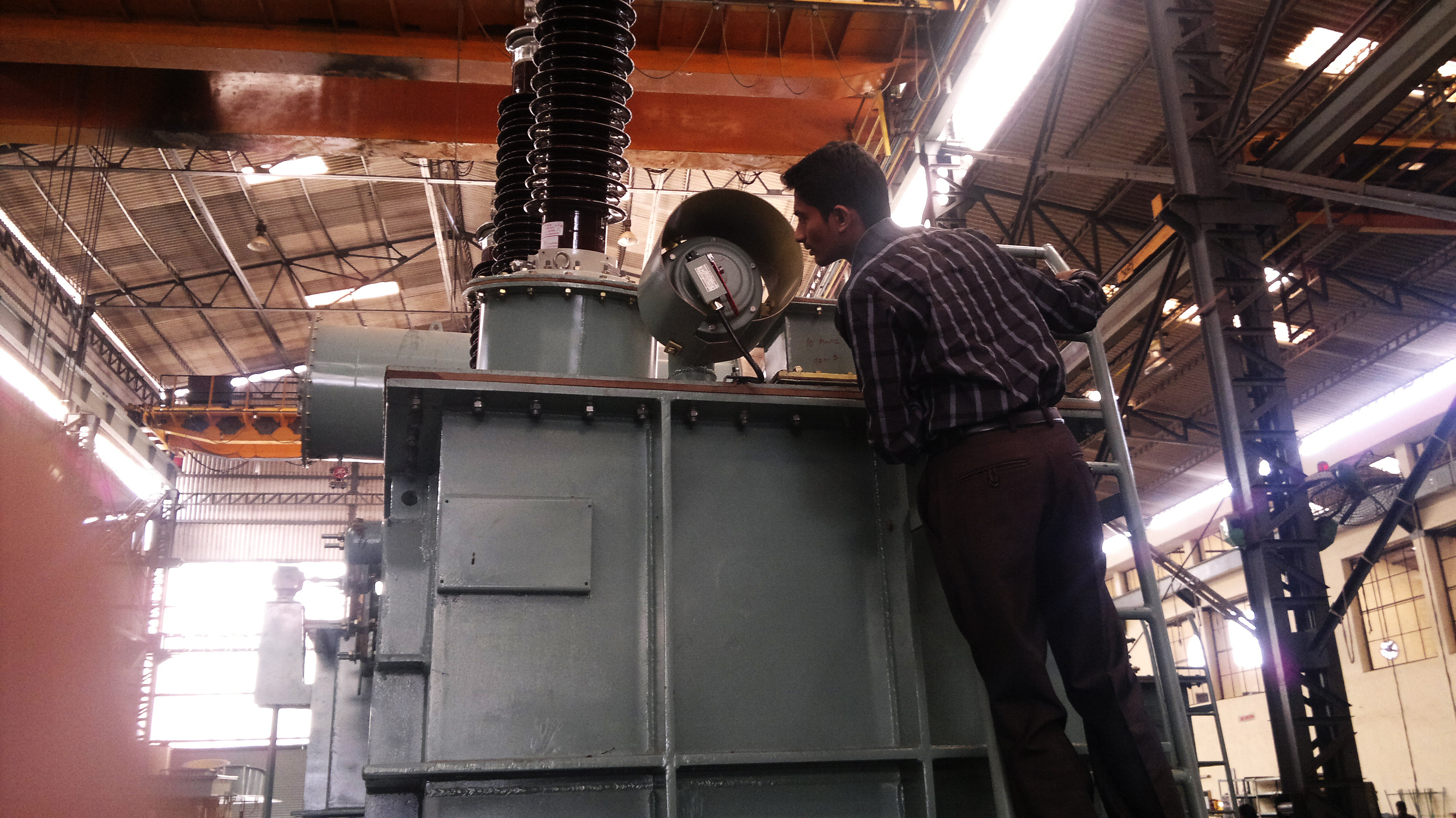 Engineer is inspecting the pressure relief valve of an oil immersed power transformer.